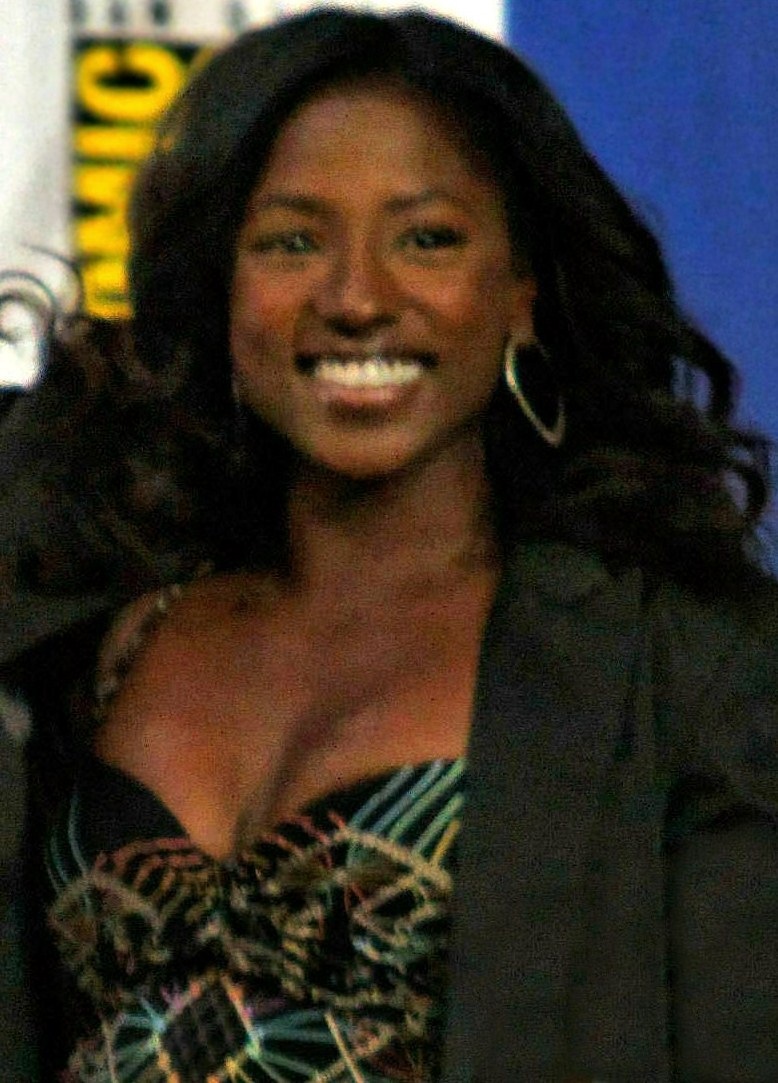 Actress Rutina Wesley at 2010 Comic-Con International